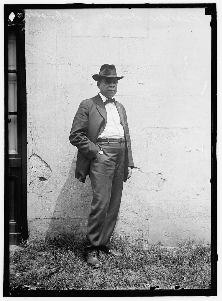 Henry Lincoln Johnson, Recorder of Deeds standing in Washington, DC in 1914